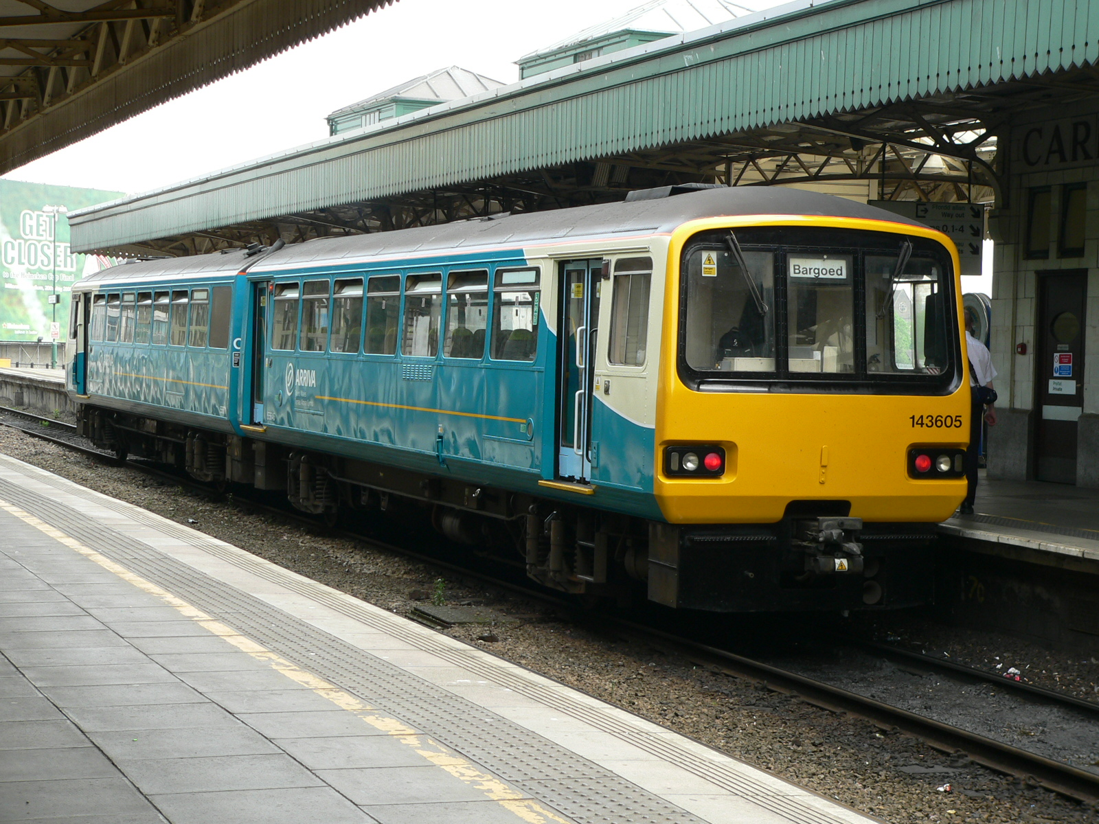 Arriva Trains Wales Class 143 railbus DMU 143605, newly painted in Arriva's corporate turquoise and cream livery, arrives into Cardiff Central with a service for Bargoed.